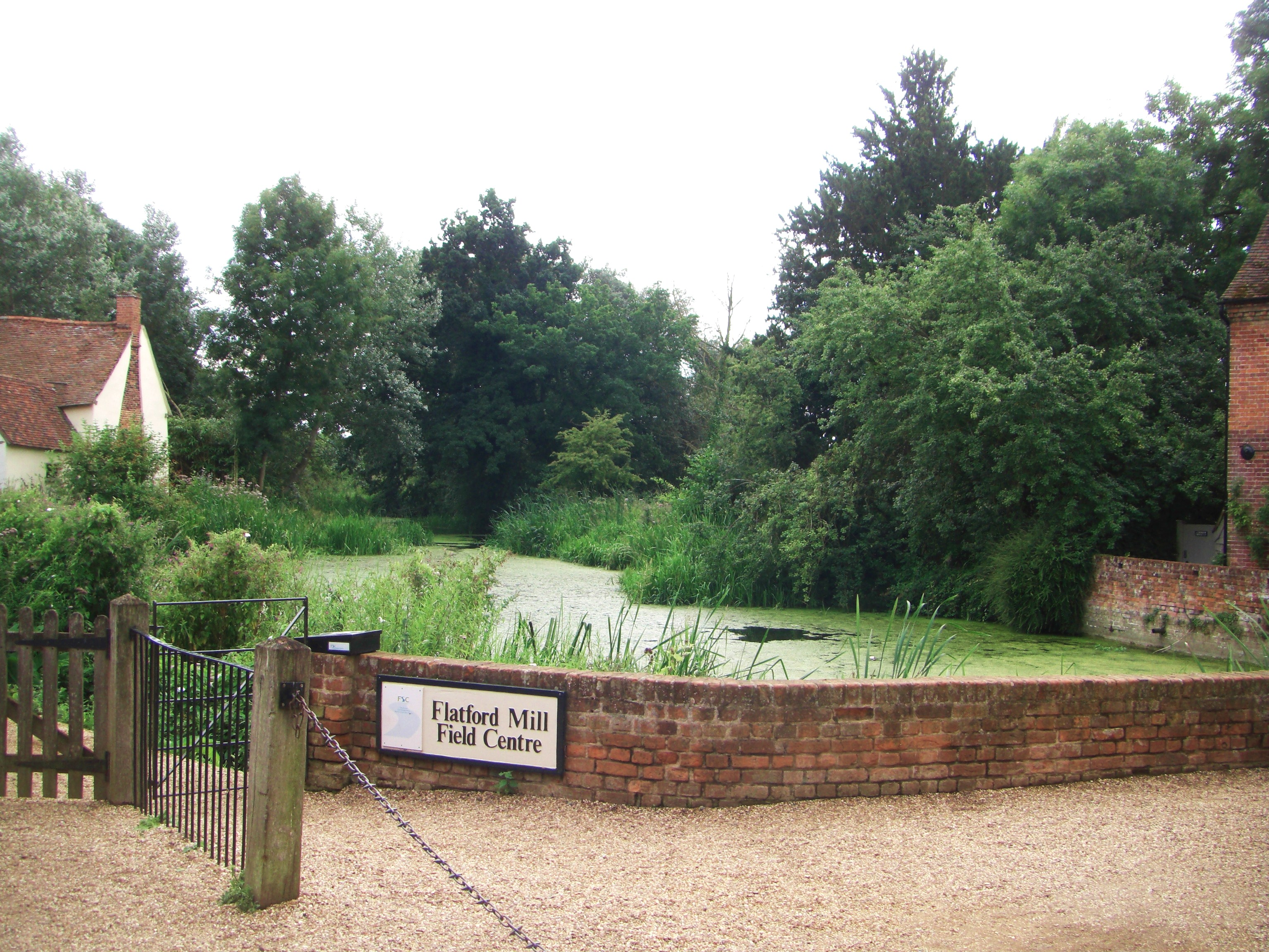 Flatford Mill, photographed in 2010. This is the site where John Constable painted his famous work The Hay Wain.